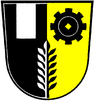 Coat of Arms of Ruhstorf an der Rott